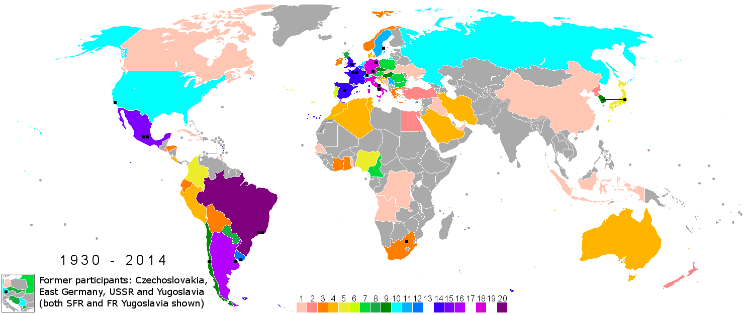 Map_World_Cup_appearances (1930-2014)